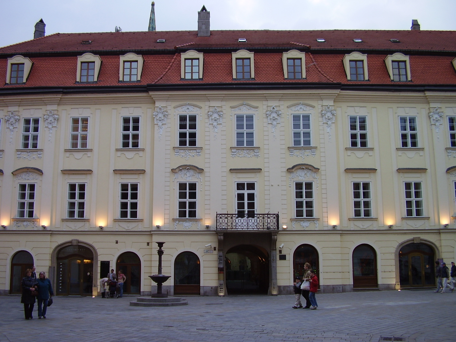 Bratislava city centre: Erdődy Palace